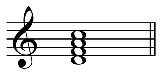 Minor seventh chord on d (ii7) in C.